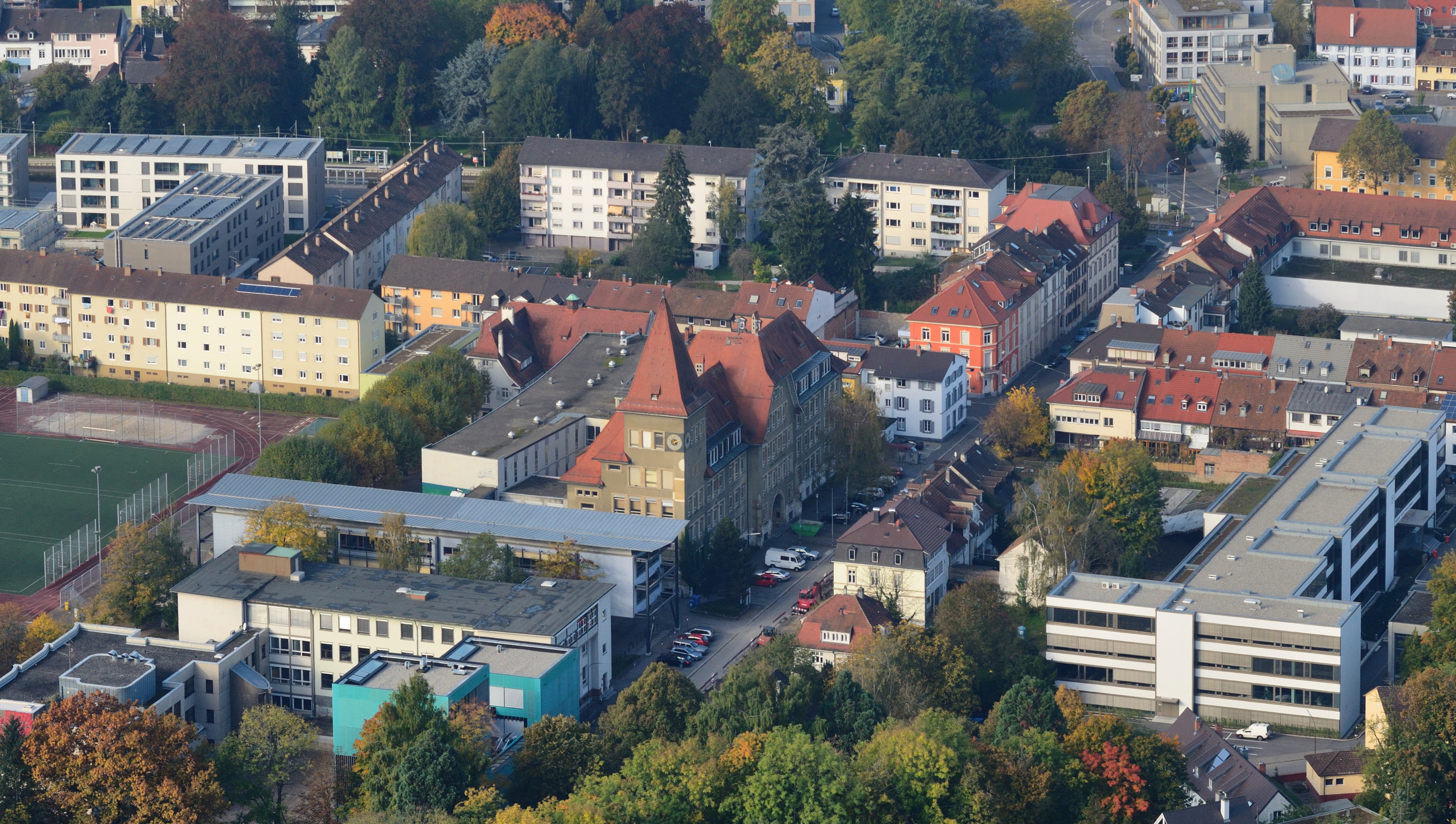 Aerial view of "Rosenfels-Campus" in Lörrach